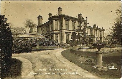 Old World War 1 Postcard of Shirle Hill Sheffield Yorks Belgian Refugees' Home